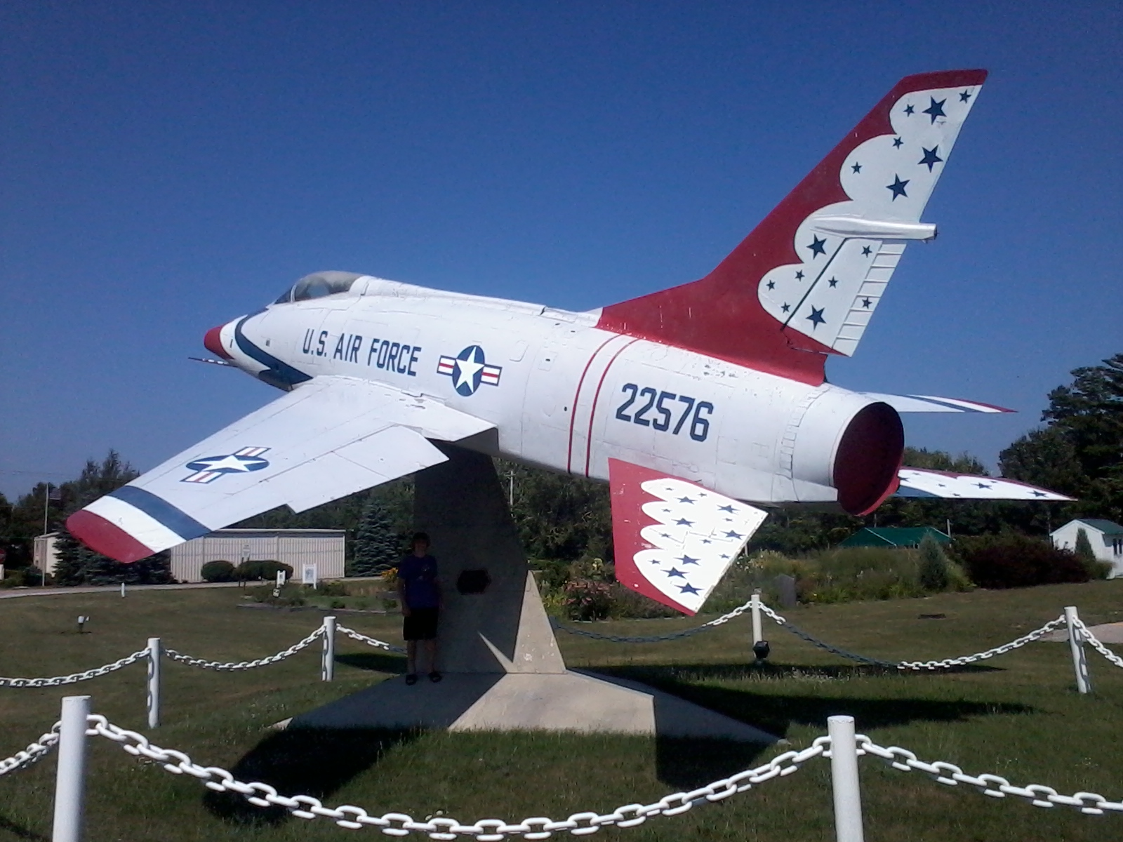 A North American F-100A-1-NA Super Sabre (s/n 52-5762, not 52-2576) at the Grand Haven Memorial Airpark, Michigan (USA), painted in USAF Thunderbirds colours. The aircraft was donated by the USAF in February 1969.